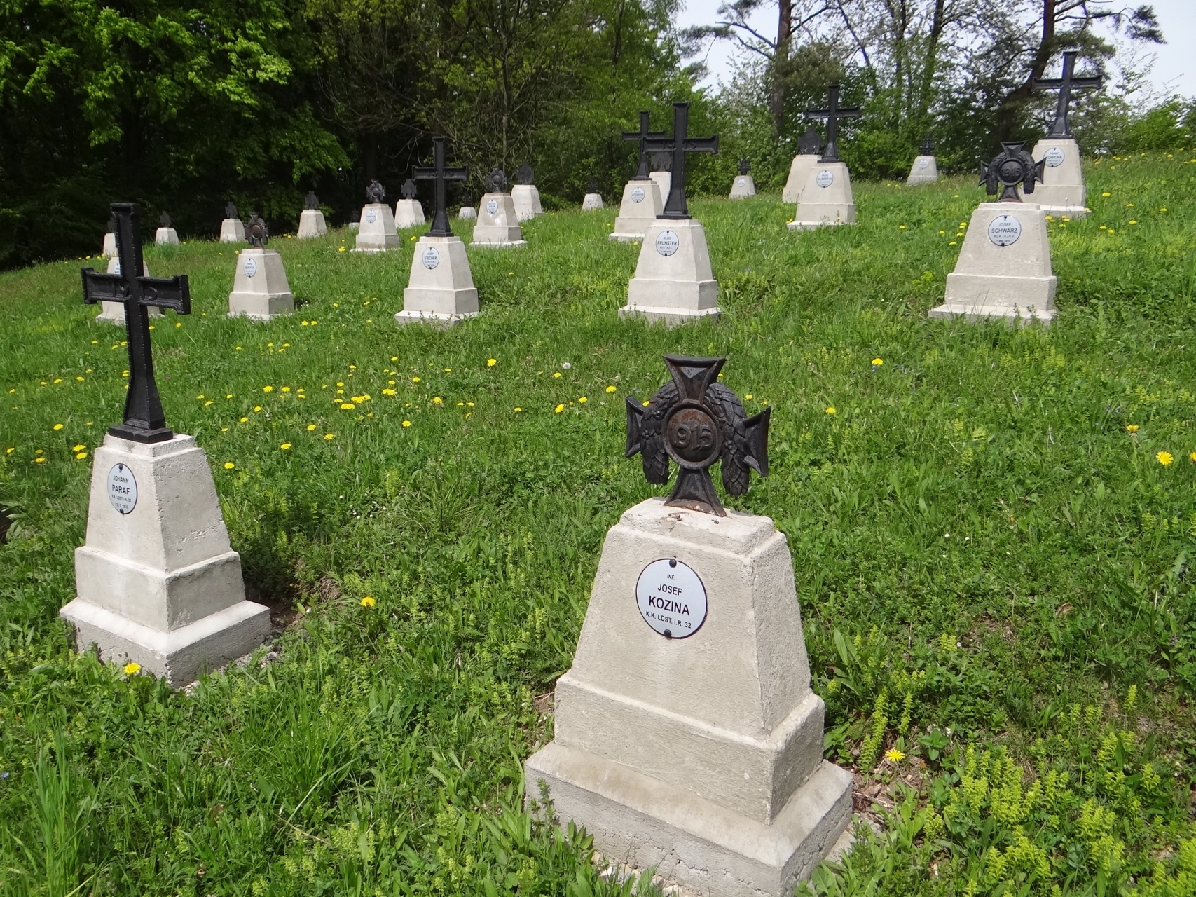 World War I Cemetery nr 185 in Lichwin